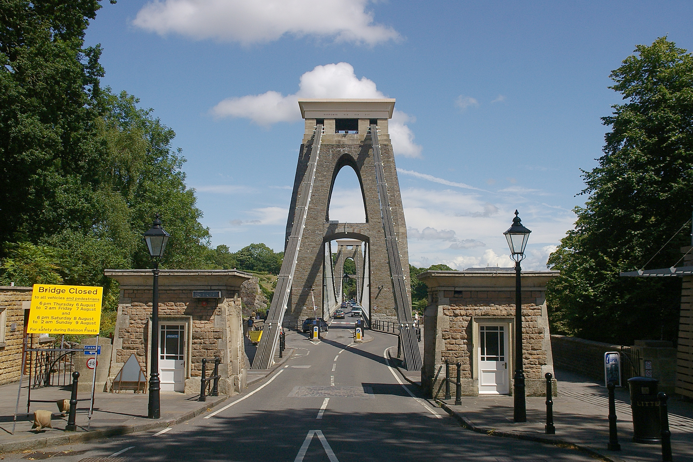 Looking towards Bristol across the Clifton Suspension Bridge.